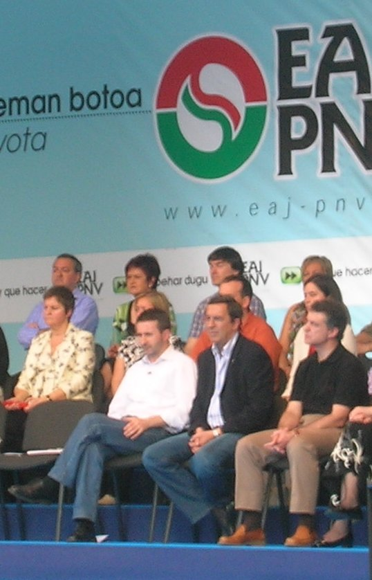 Josu Jon Imaz, José Luis Bilbao and Inigo Urkullu at a meeting ofd the Basque Nationalist Party at Getxo.